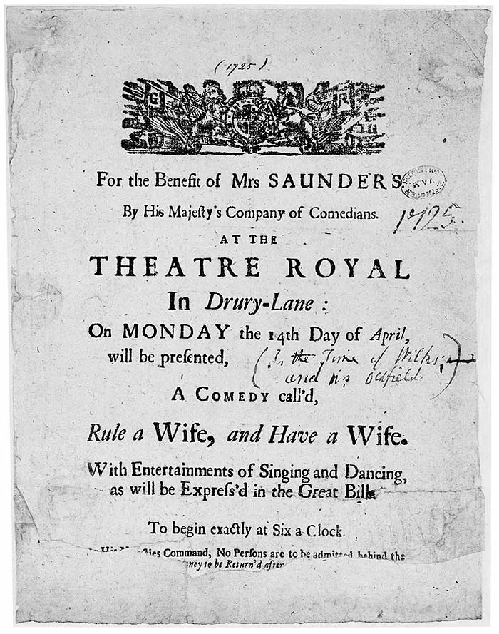 Drury Lane playbill, advertising a performance of John Fletcher's Rule a Wife and Have a Wife".